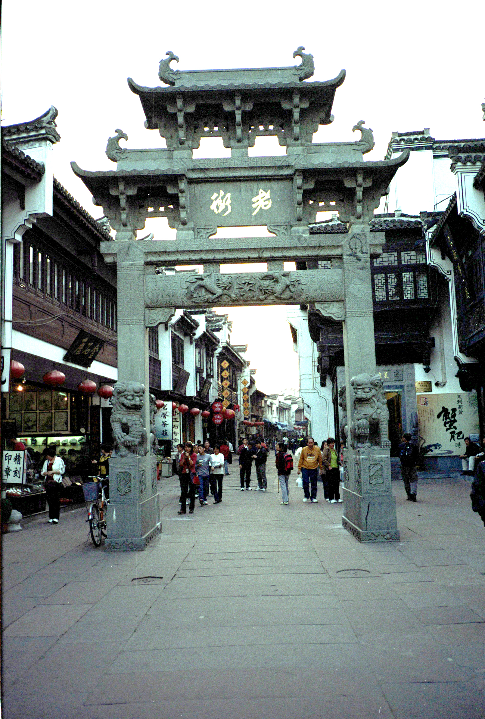 The Old Street of Tunxi安徽屯溪老街